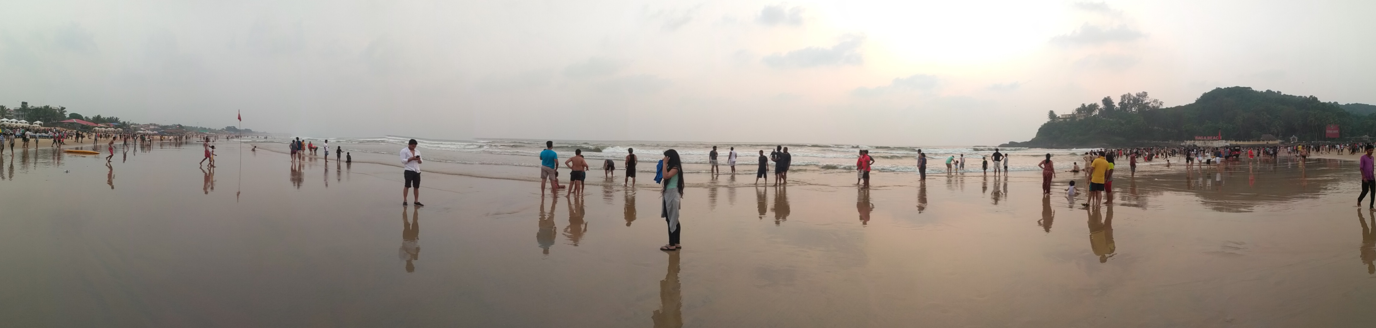 Panoramic view of Baga Beach in 2018